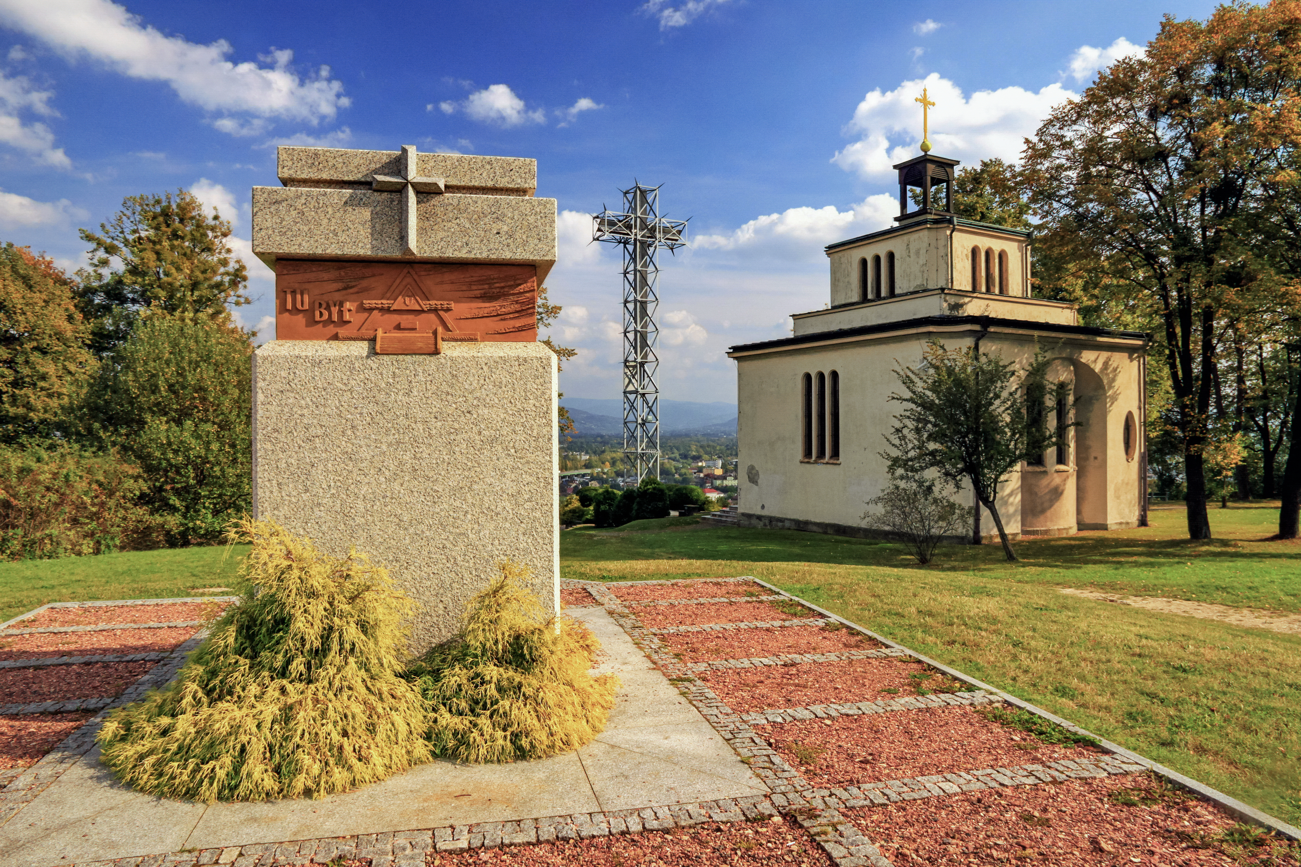 Kaplicówka Hill. Skoczów, Silesian Voivodeship, Poland.